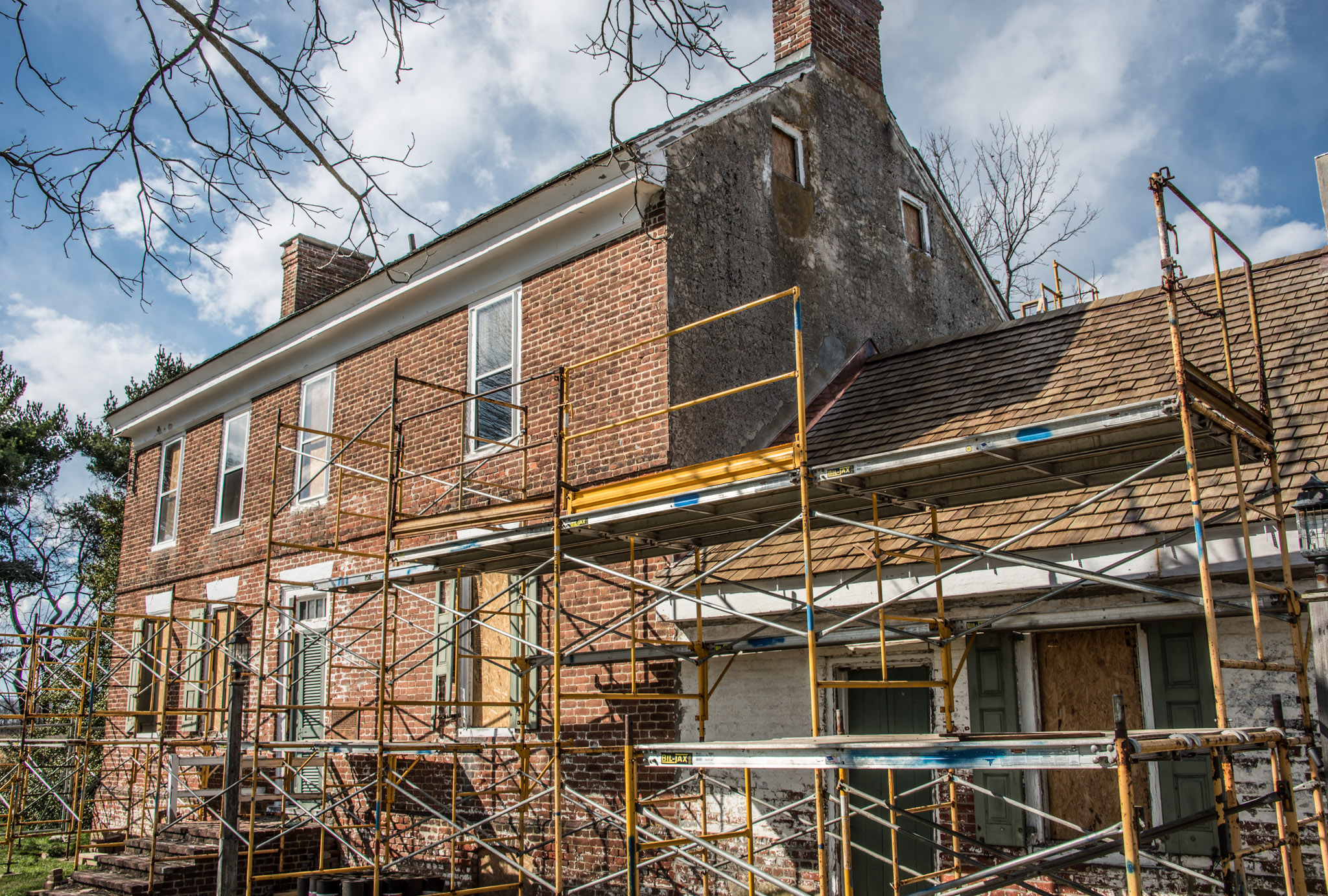 The Allee House under repair in 2016 at the Bombay Hook National Wildlife Refuge in Delaware